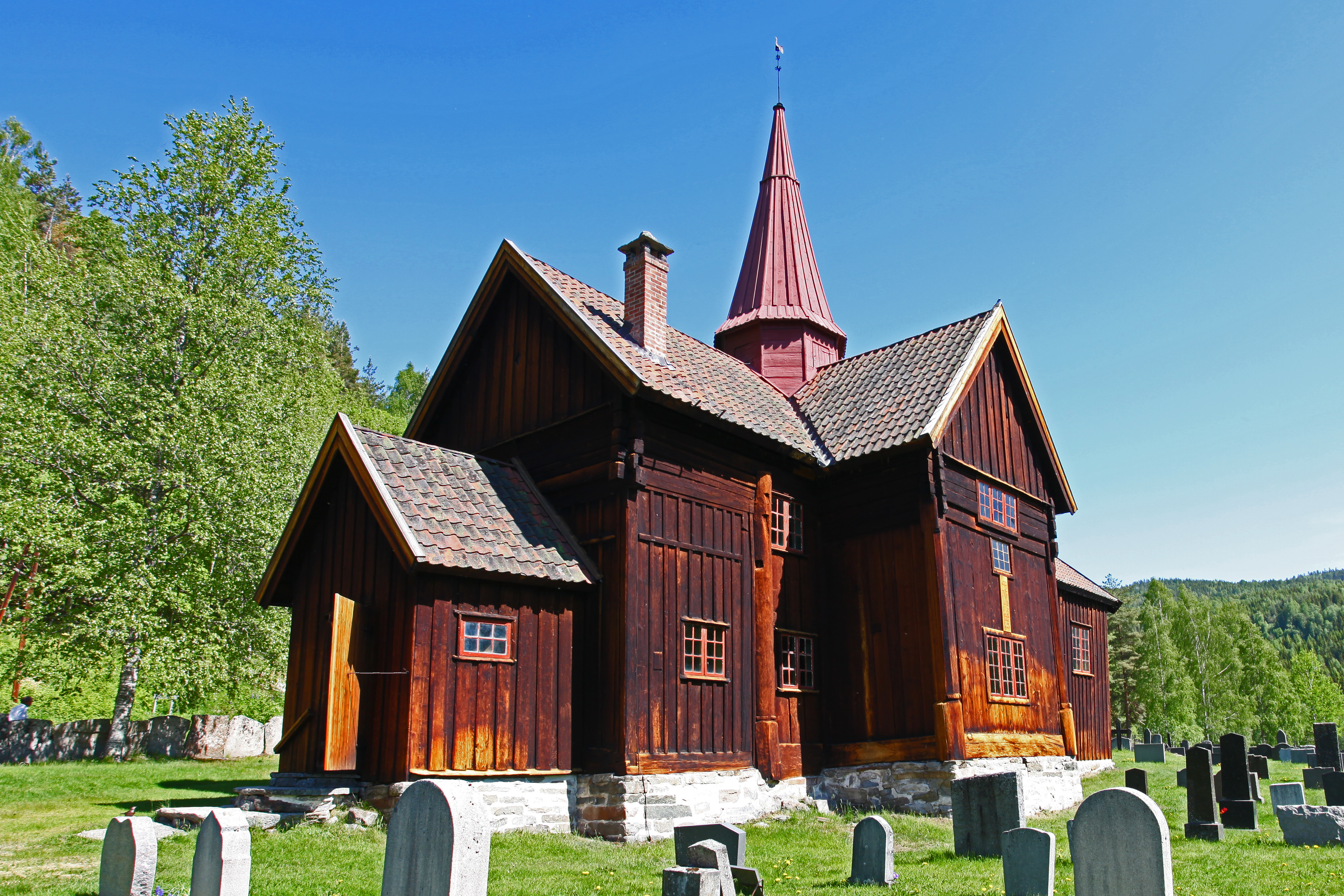 Picture of Rollag stave church (Buskerud - Norway)